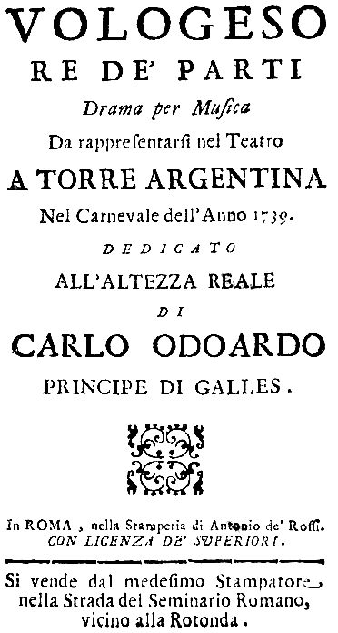 Rinaldo di Capua - Vologeso - titlepage of the libretto - Rome 1739